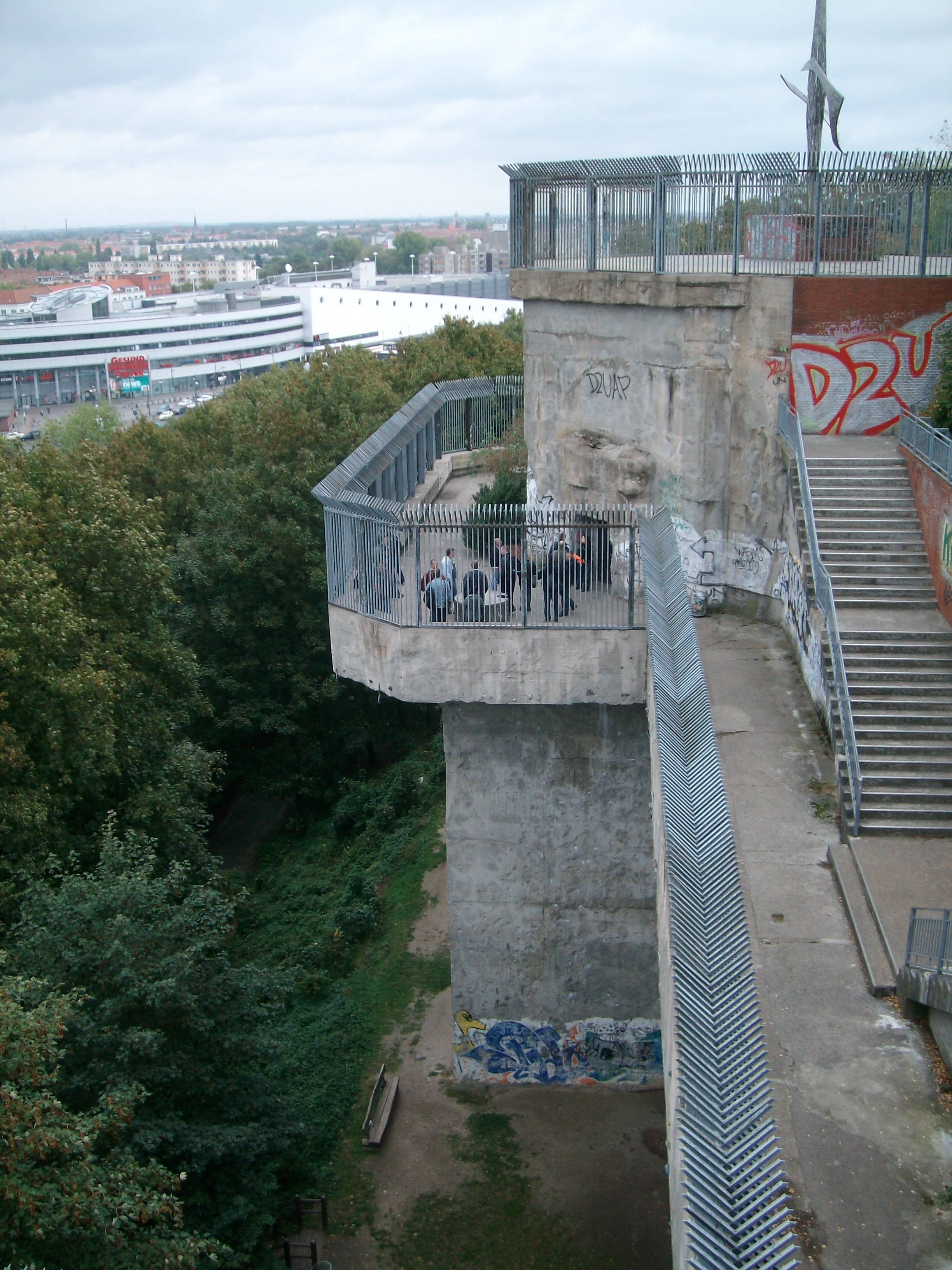 AA-Bunker Humboldthain.